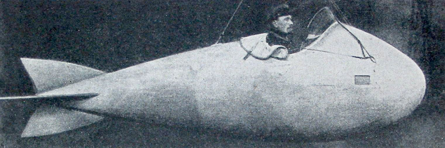 Spy basket